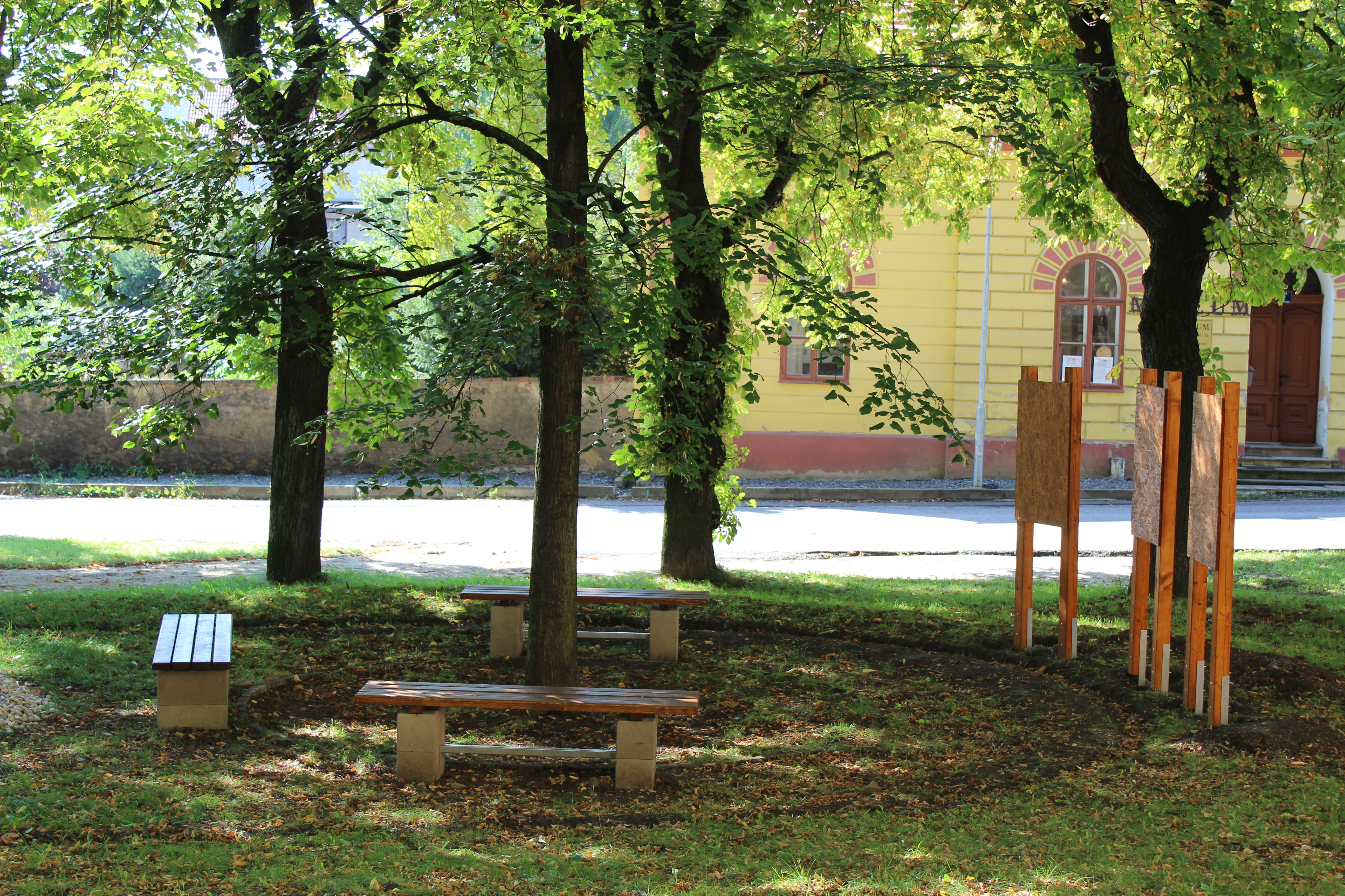 Museum Svatopluk Cech and Jarmila Novotna in Liten. The museum is located in the newly built premises memorable rectory near the church. Peter and Paul, where permanent exhibitions Jarmila Novotna and Svatopluk Cech.